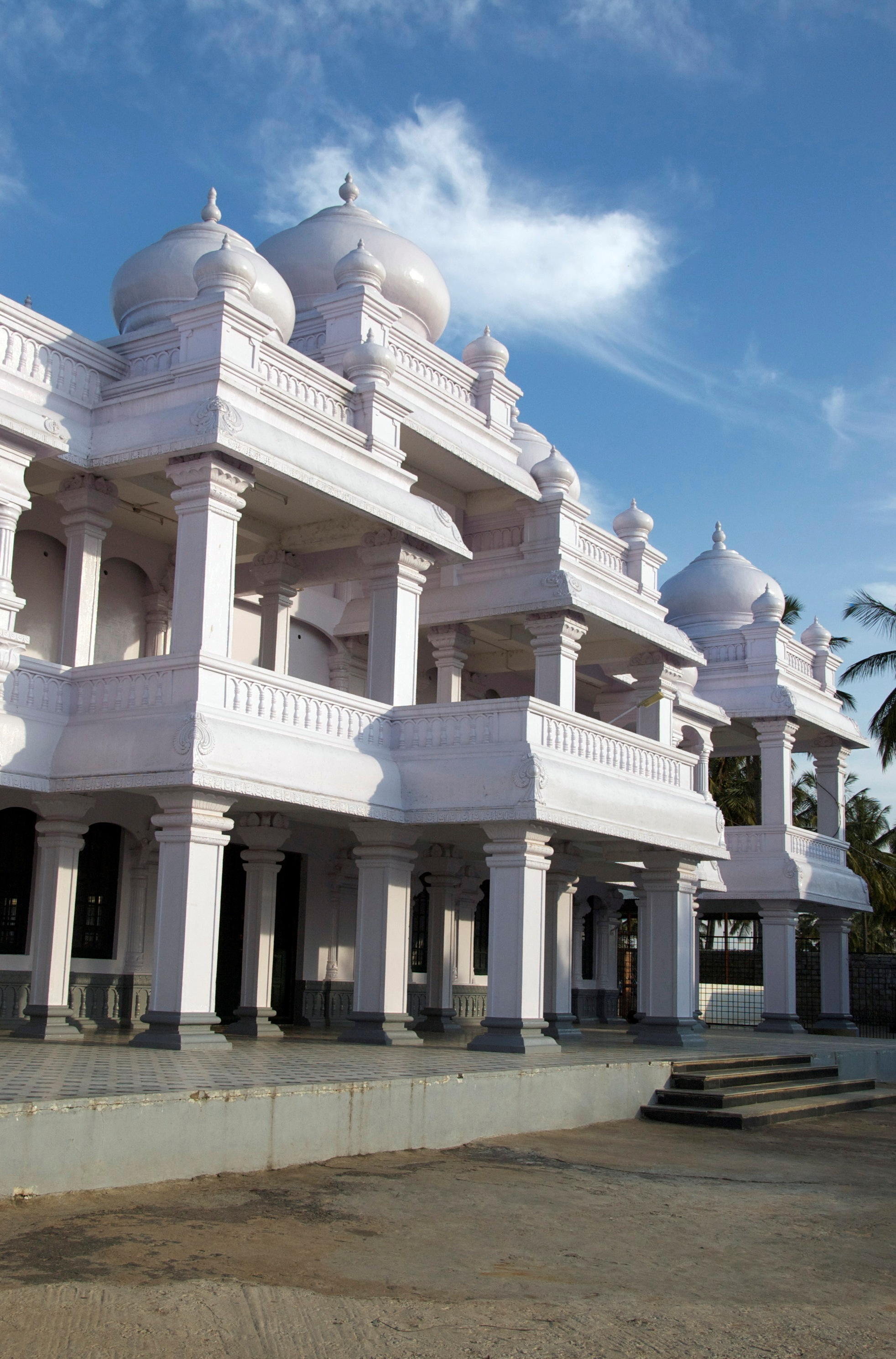 This is the Narayanappa Mutt at Kaiwara. Kaiwara is a small town near Kolar. Narayanappa or Kaiwara Thatayya as he is better known is the "Nostradamus" of Karnataka. He was supposedly blessed with the ability to see into the future - courtesy many years of yoga siddhi. Kaiwara is not one of those popular well-known places around Bangalore but it is great place to go on a weekend.